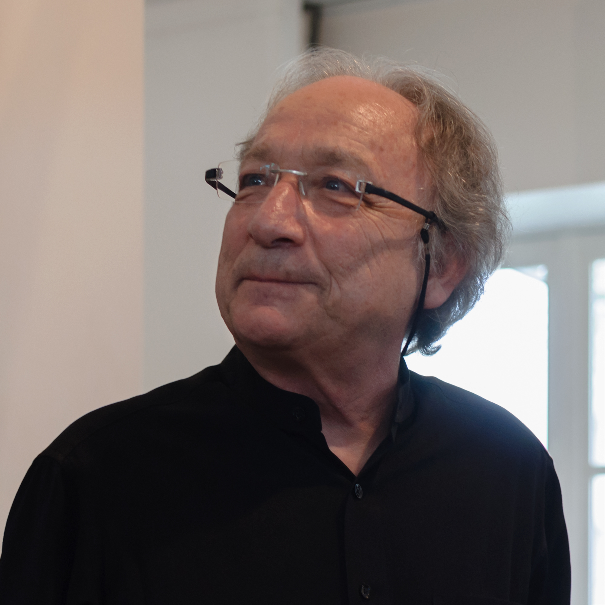 Ernest Pignon-Ernest, at the Maison des Arts ('House of Arts') in Malakoff, Hauts-de-Seine, France, in March 2014.